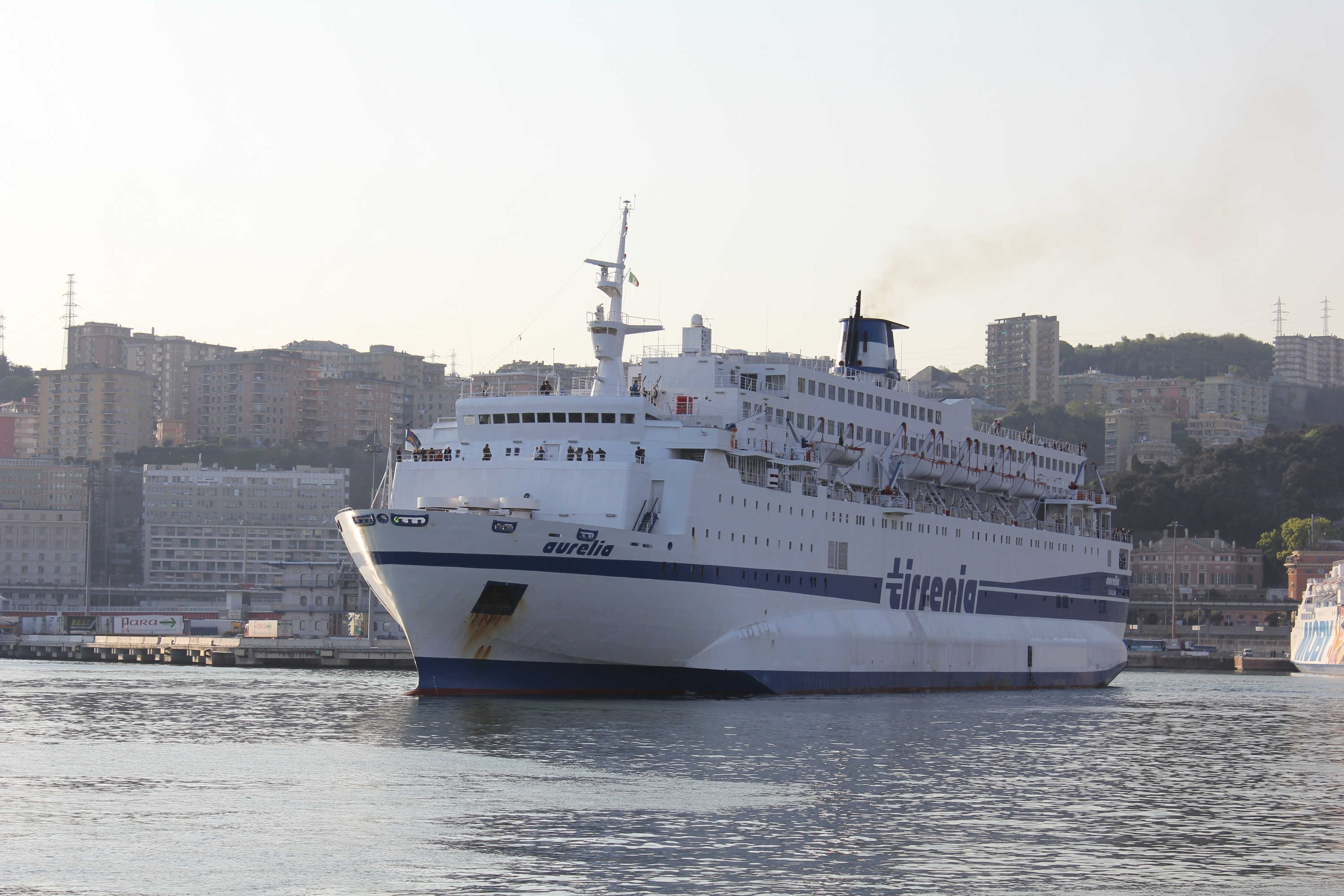 Ferry "Aurelia" departing from Genua's harbour, 18-04-2011